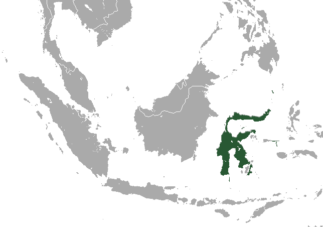 Sulawesi Flying Fox (Acerodon celebensis) range